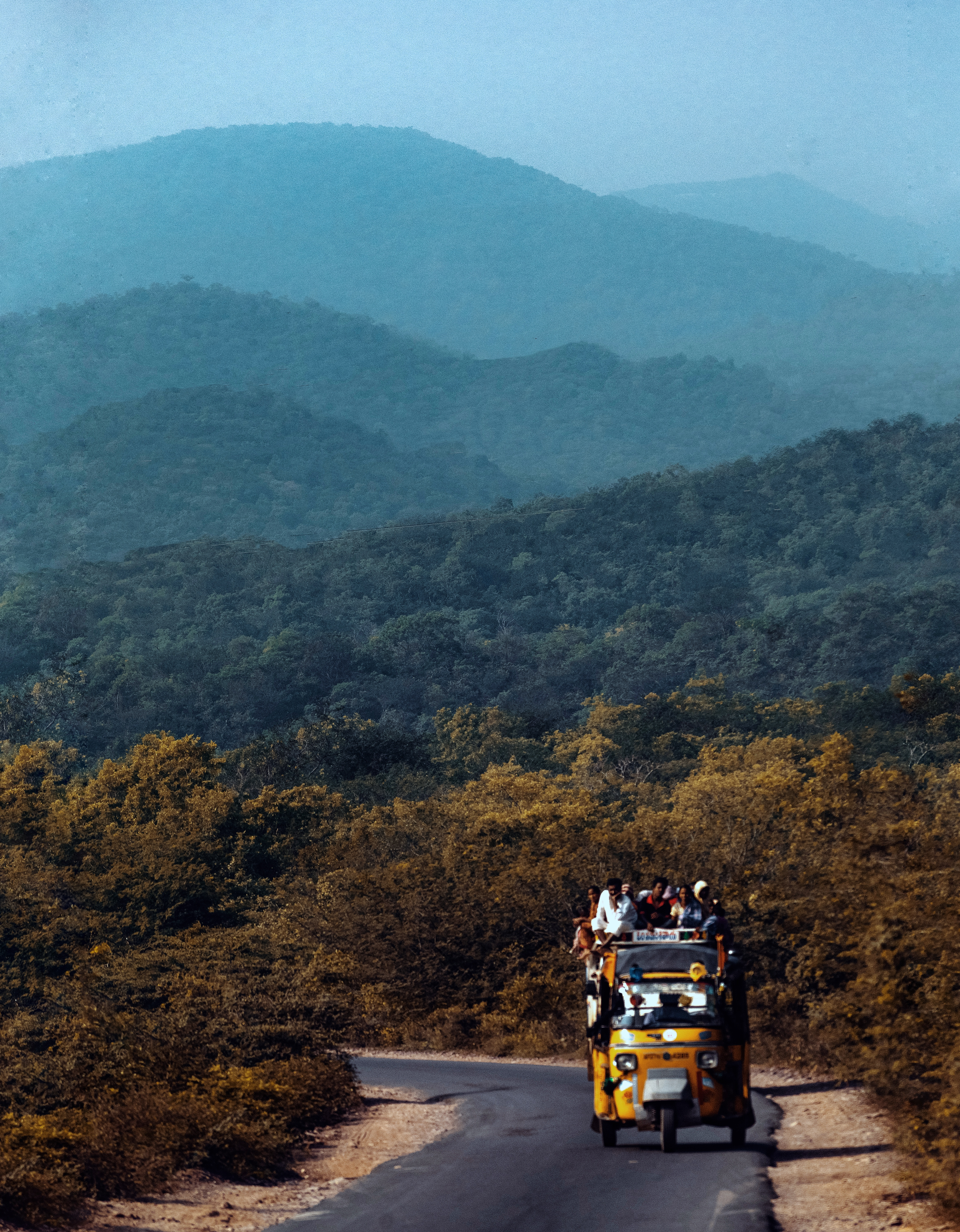 Ghat roads of Srisailam range